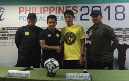 Arnie Pasinabo of Ceres-Negros (2nd from left) and Kaya FC-Iloilo’s Jalsor Soriano meet with their respective coaches Ronald Ian Treyes (left) and Noel Marcaida (right) during the pre-match press conference in Bacolod City Friday night (May 11, 2018). (Photo by Nanette L. Guadalquiver)